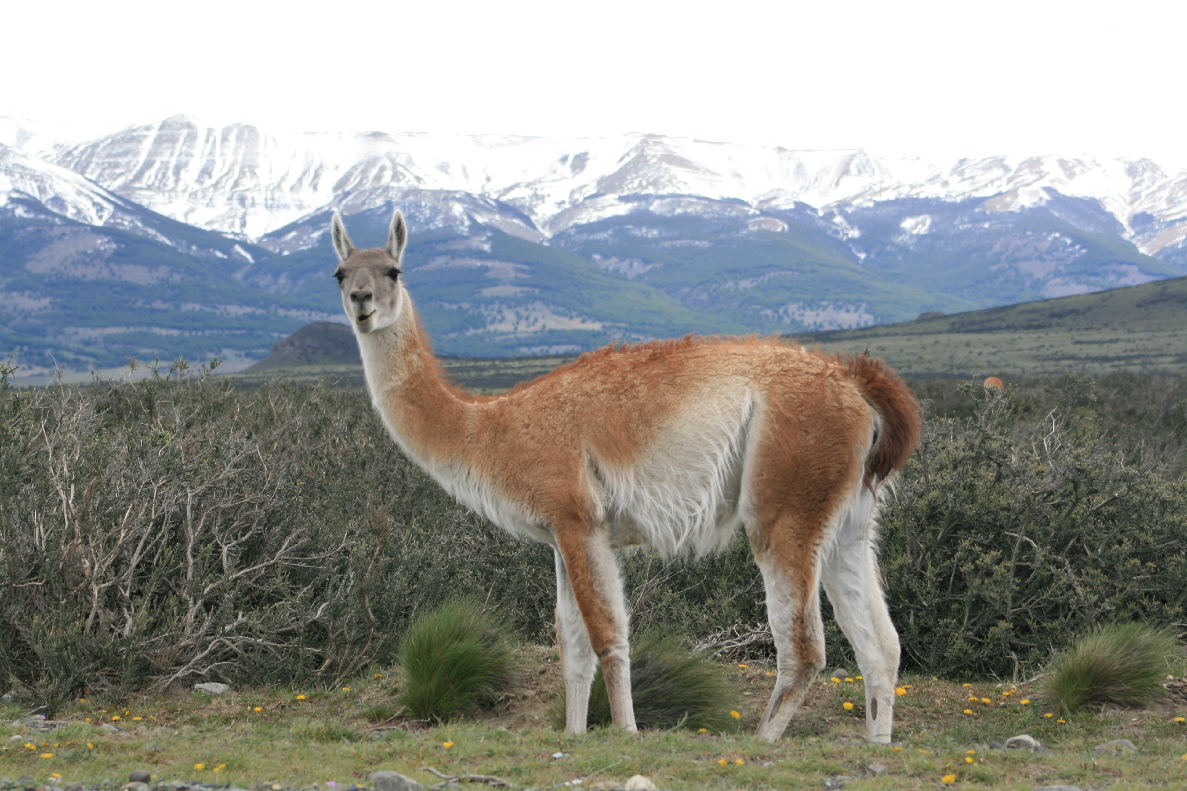 Guanacos (Lama guanicoe), Torres del Paine National Park, Chile